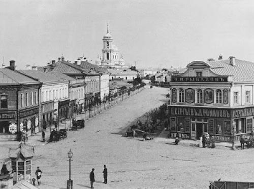 Bolshaya Alekseevskaya Street (now Solzhenitsyn Street) from Taganka Square